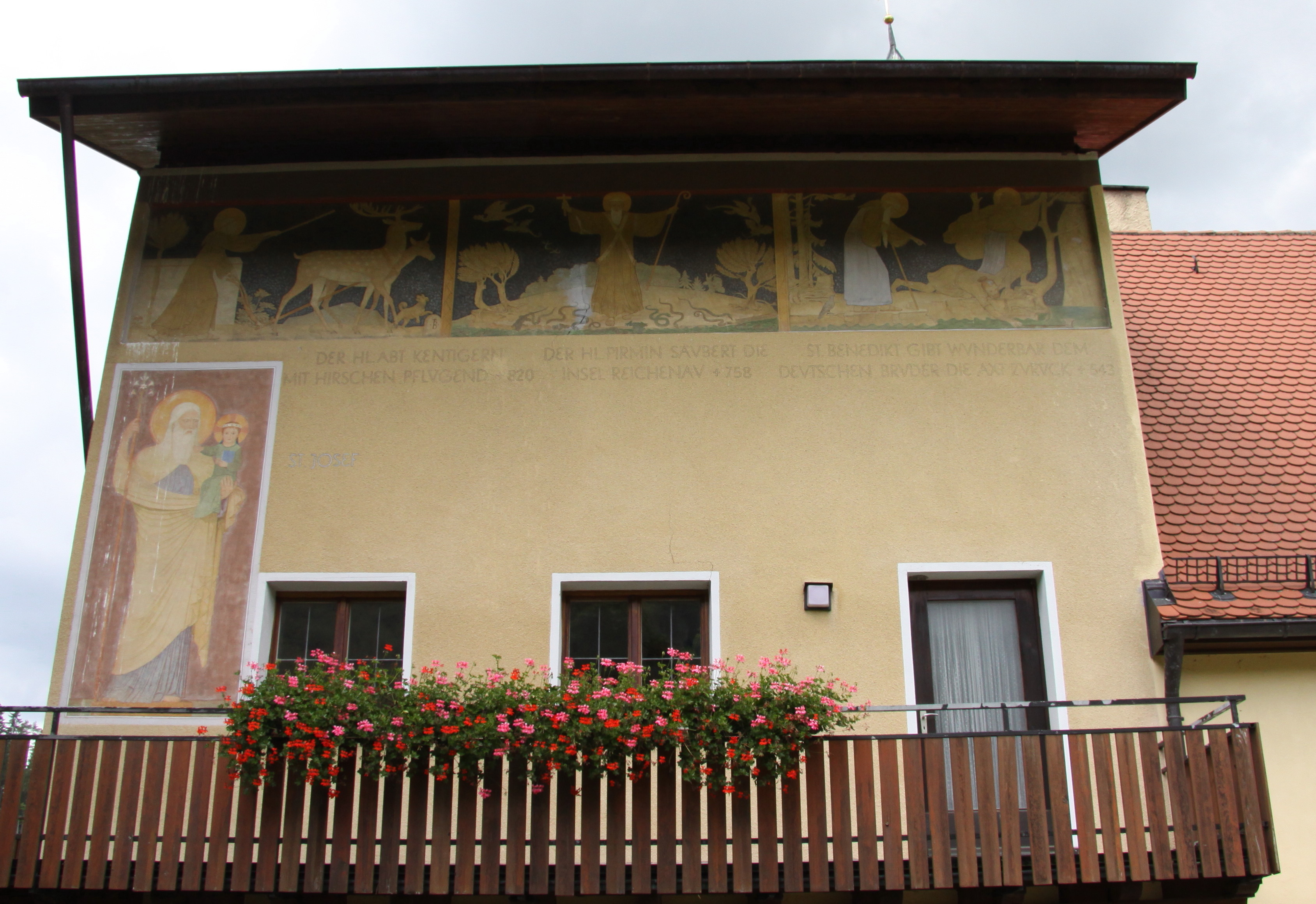 Farmhaus in St. Maurus im Feld, near Beuron. Part of Mauruskapelle. Painter: Lukas (Fridolin) Steiner